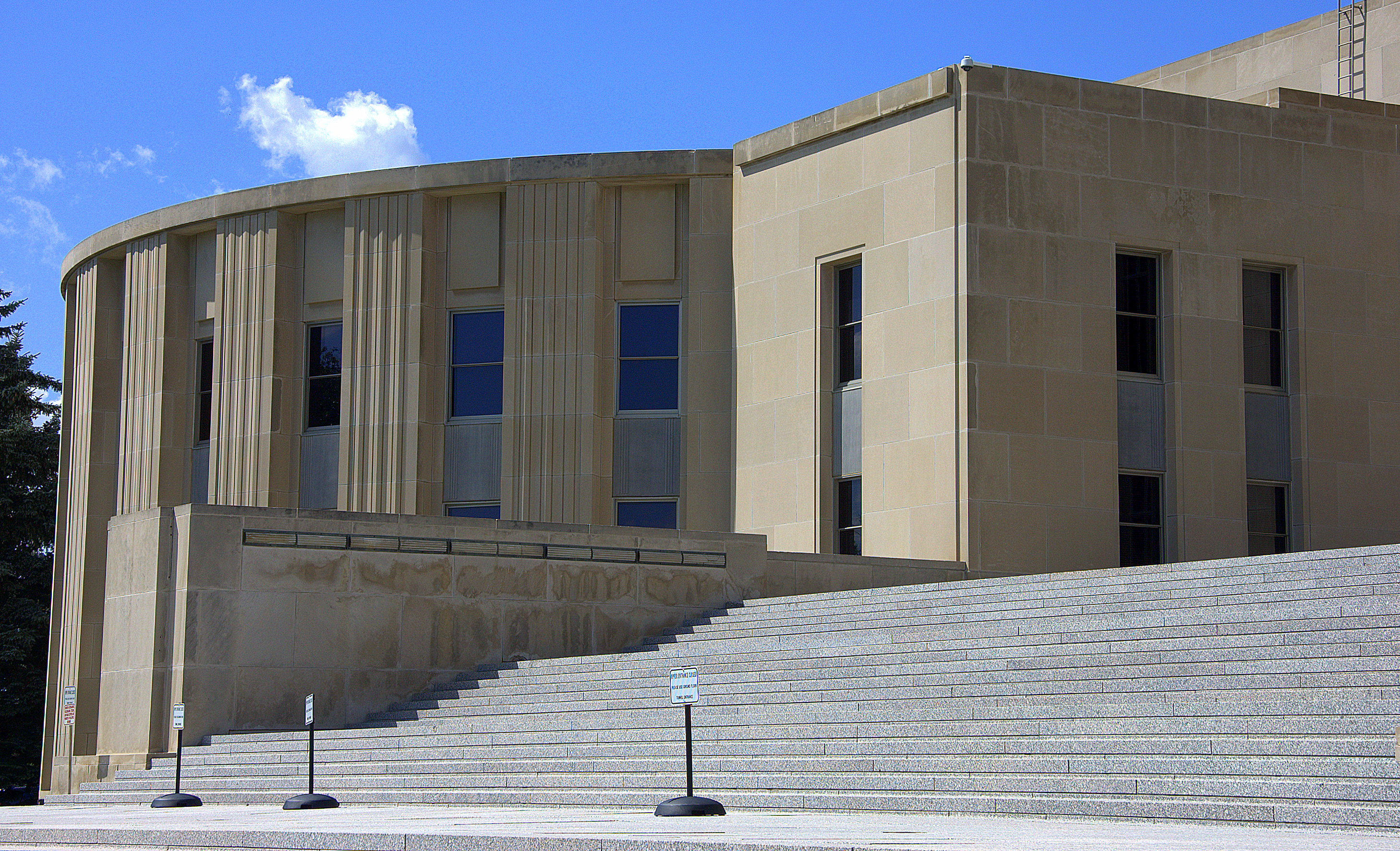 North Dakota State Capitol